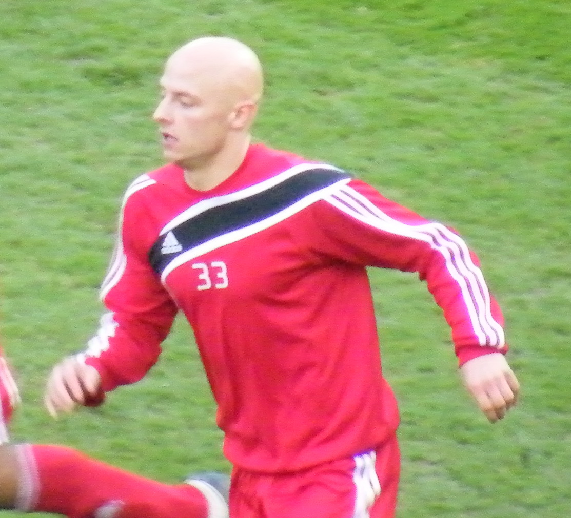 József Varga Hungarian association football player.